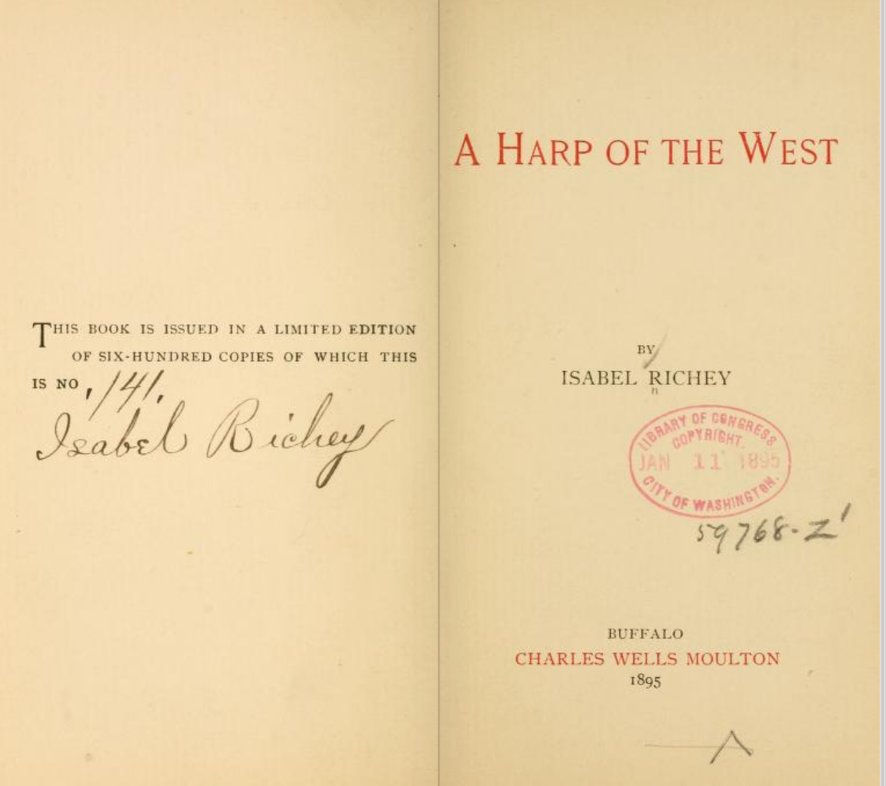 Title page of 'A Harp of the West' by Isabel Grimes Richey, Charles Welles Moulton (1895) numbered and signed by the author